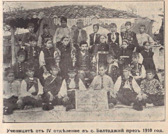 Students from 4 grade in Baltazhdija School, 1910